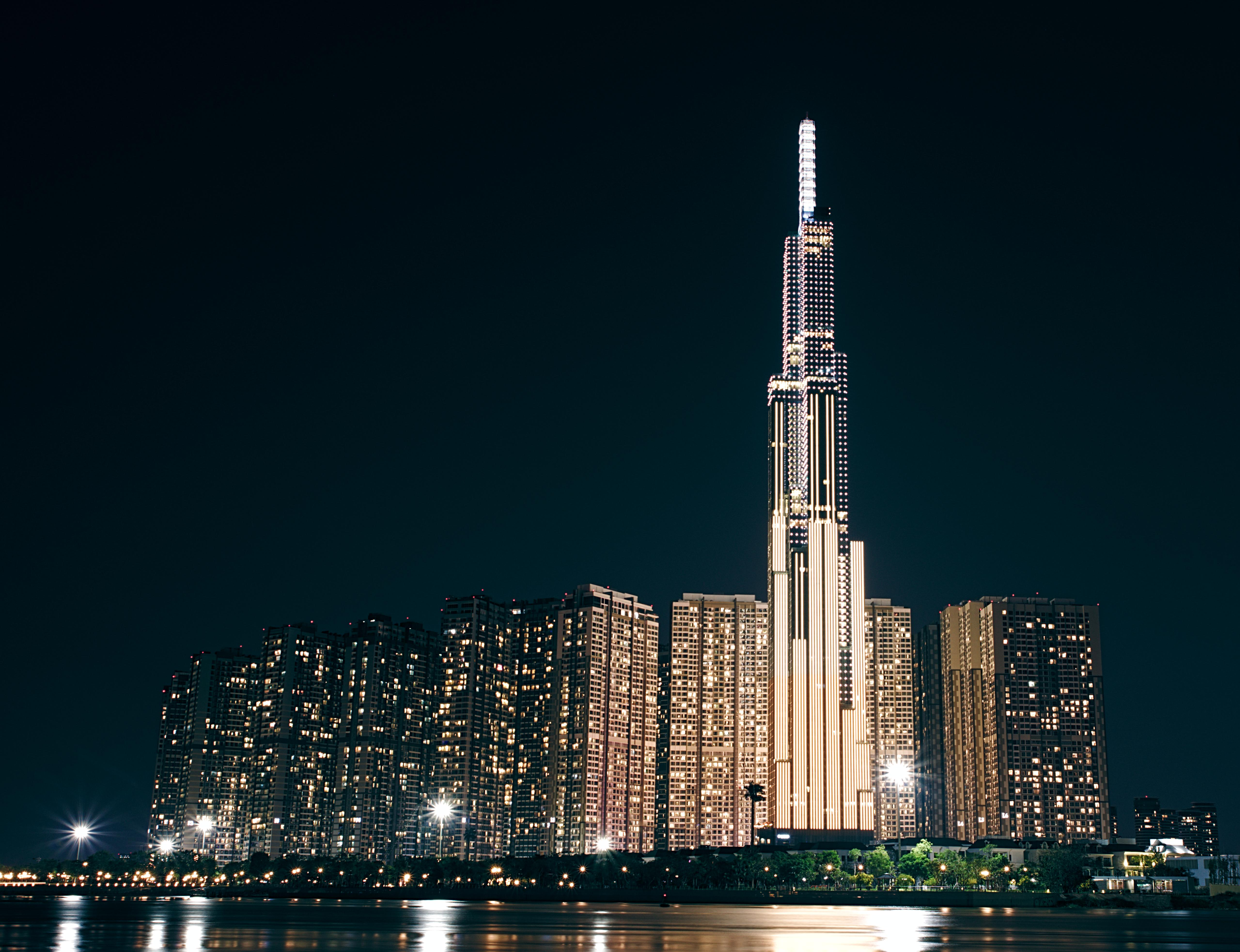 Landmark 81